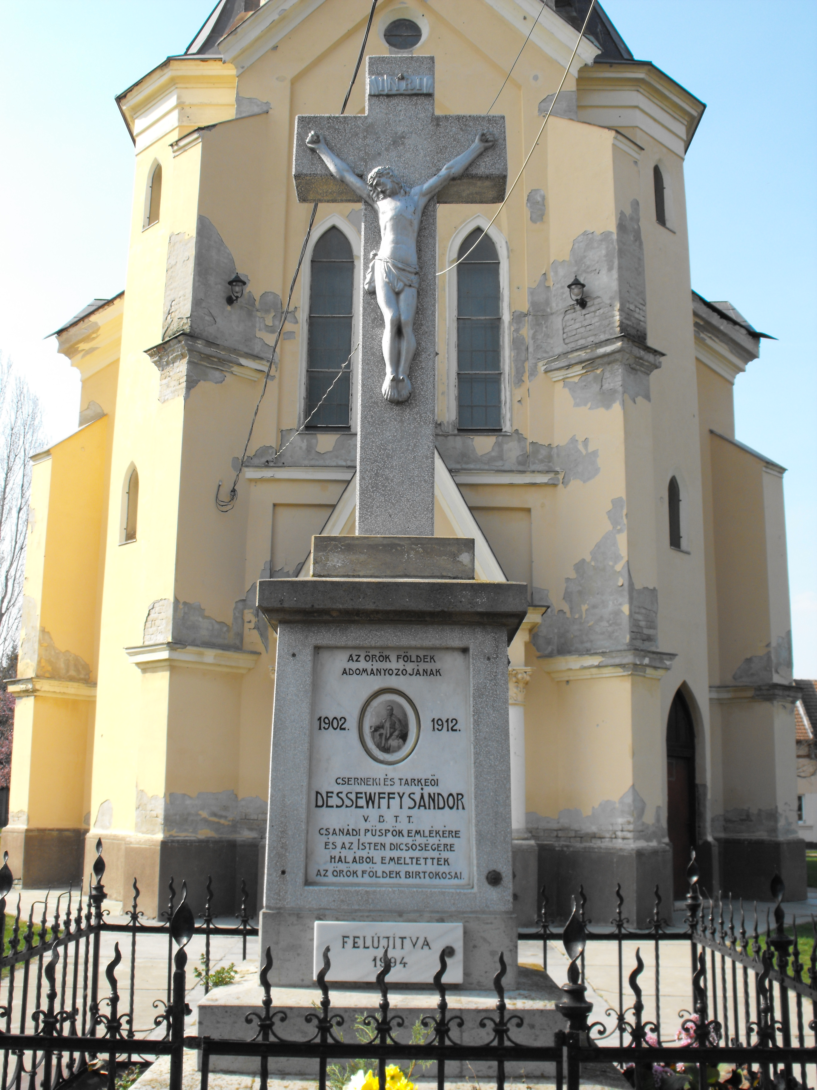 Cross in Maroslele, Hungary commemorating to Sándor Dessewffy, Bishop of Csanád.